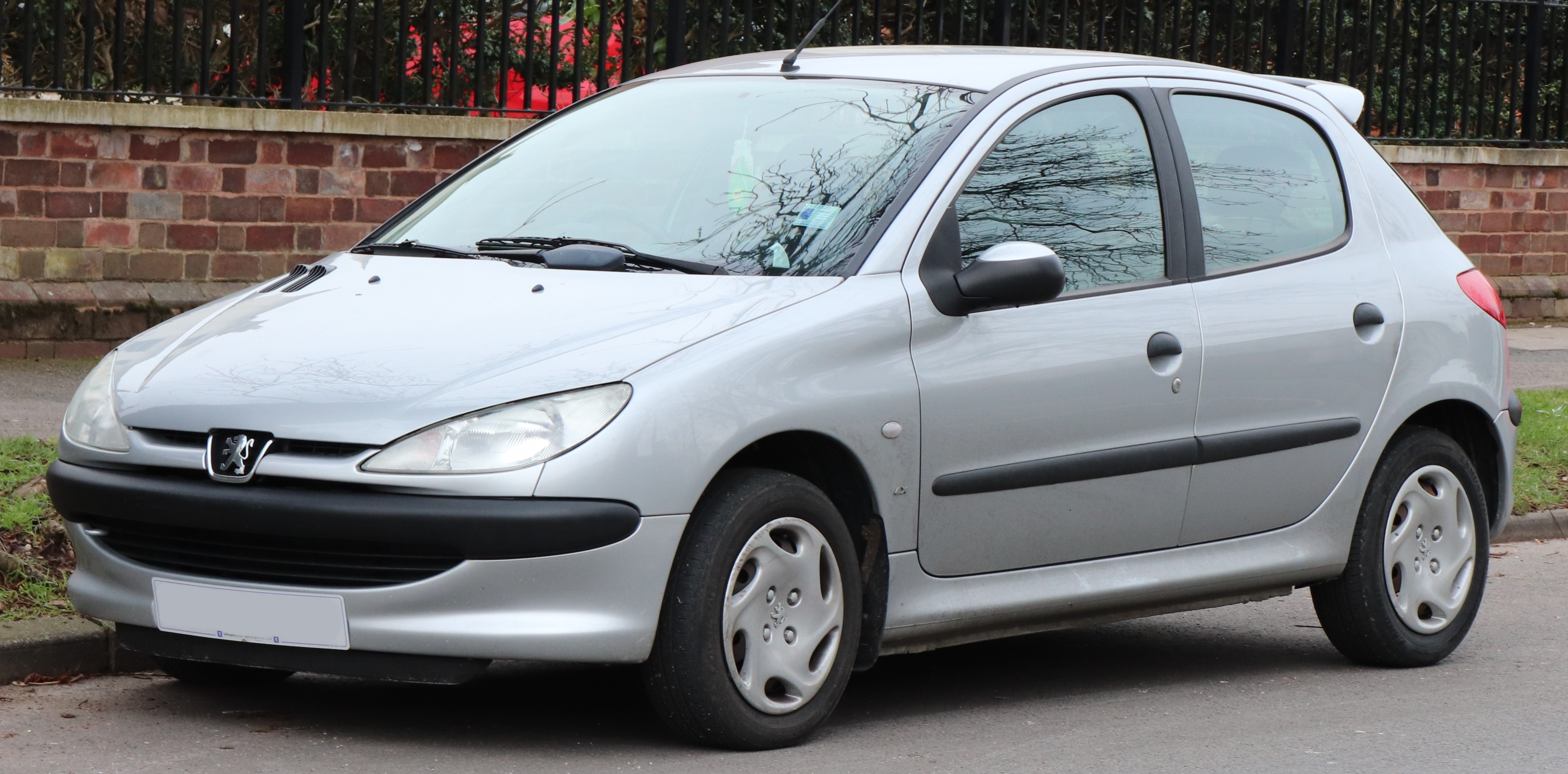 2002 Peugeot 206 LX 1.4 Front Taken in Leamington Spa